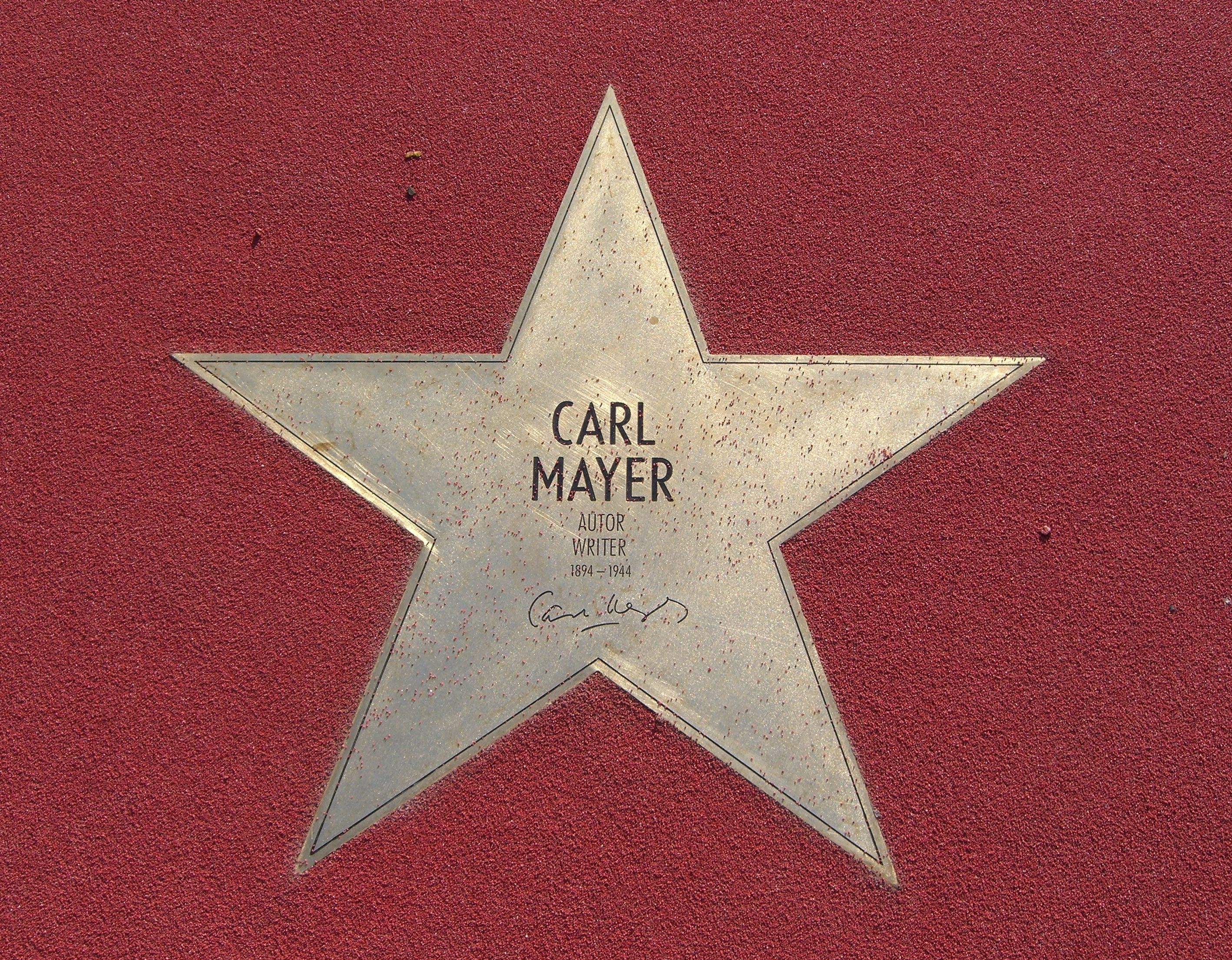 Star of Carl Mayer at "Boulevard der Stars" in Berlin.